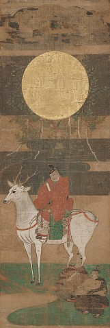 Kasuga Deities Departing from Kashima Shrine, Kasuga Taisha, Nara, Nara, Japan